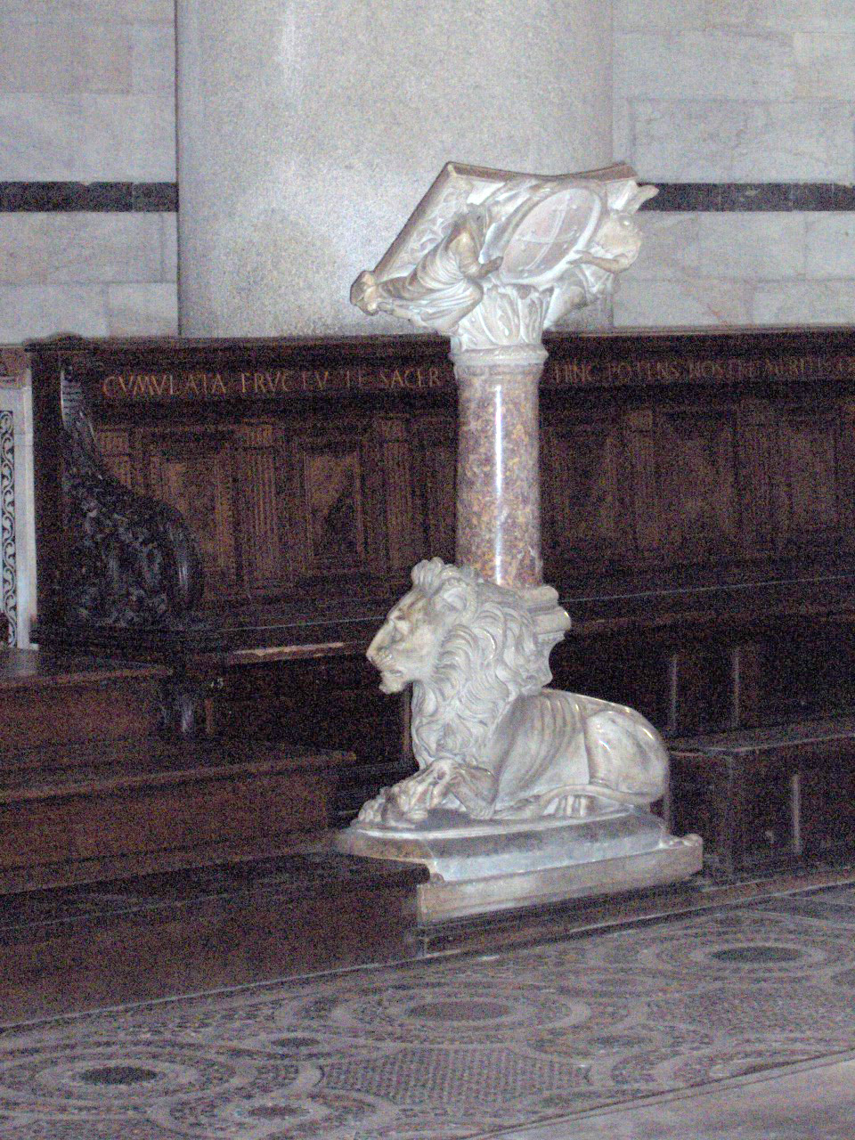 Pisa, Italy - Baptistry : lectern Photo taken by me on 10 October 2005